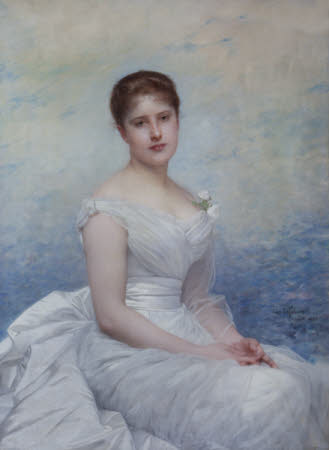 Oil painting on canvas, Frances Margaret Lawrance, Lady Vernon (d.1940) by Jules-Joseph Lefebvre (Tournan-en-Brie 1836 ? Paris 1912). Signed and dated: Jules LeFevre./aout 1883. A three-quarter-length portrait of a young woman, seated and turned to the right, gazing at the spectator; her hands clasped on her lap, wearing a white dress with a spray of roses on her left shoulder. Of New York and wife of George William Henry Vernon, 7th Baron Vernon, whom she married in 1885. (Exhibited in Paris Universal Exhibition 1889, No. 890).